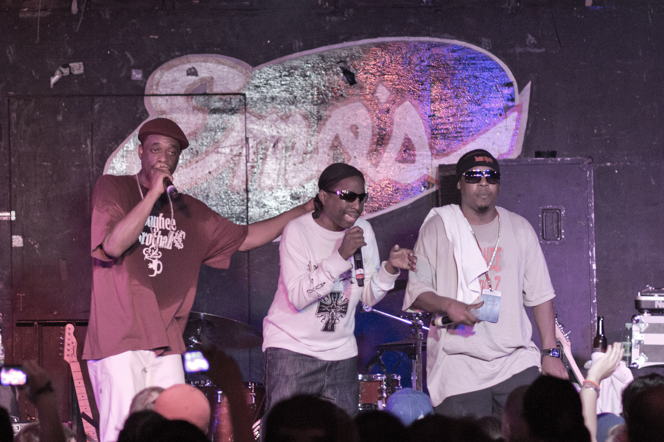 Devin the Dude, Rob Quest and Jugg Mugg performing at Emo's, Austin, TX. May 2011.